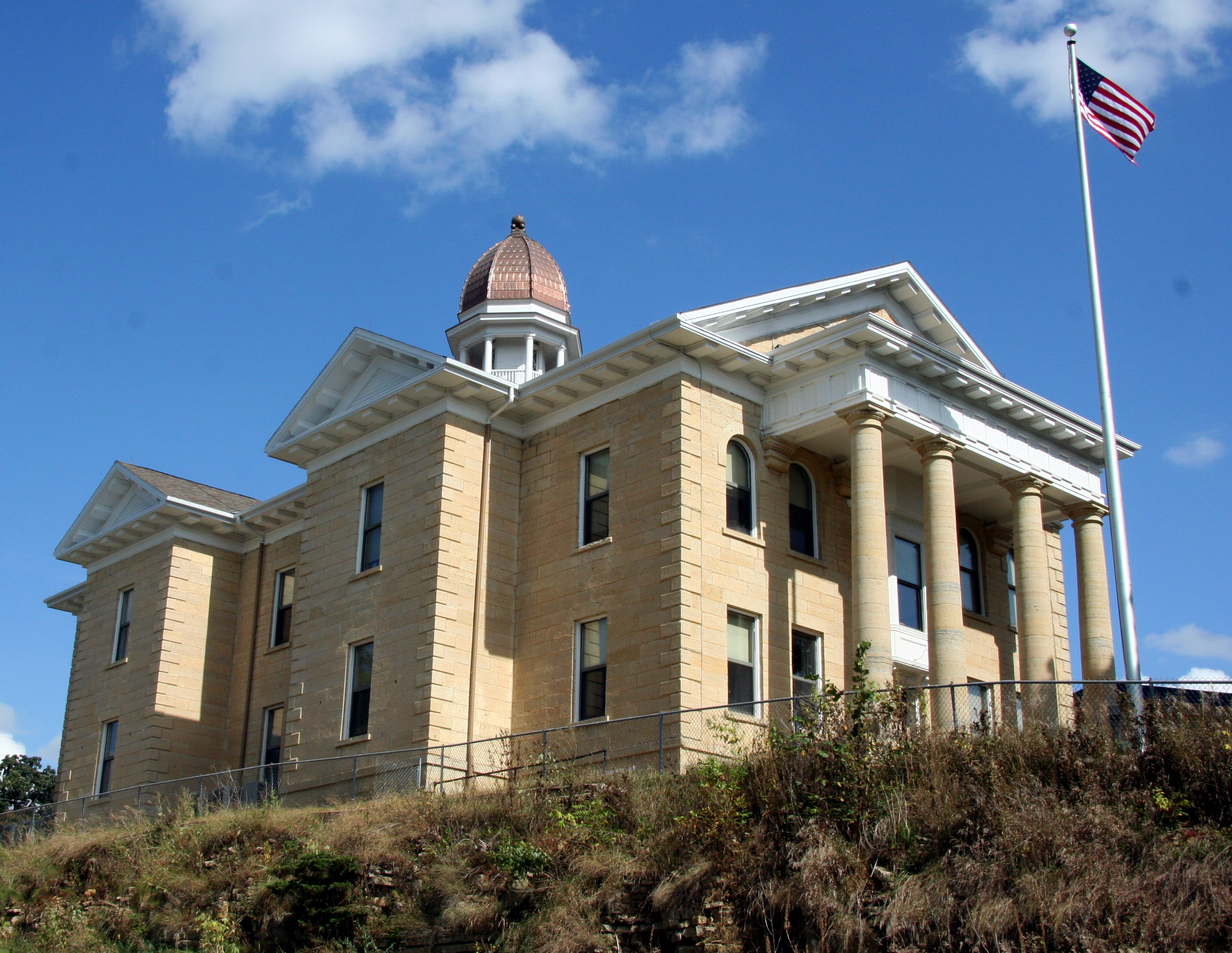 Dodge County Courthouse as seen from Minnesota State Highway 57 in Mantorville, Minnesota